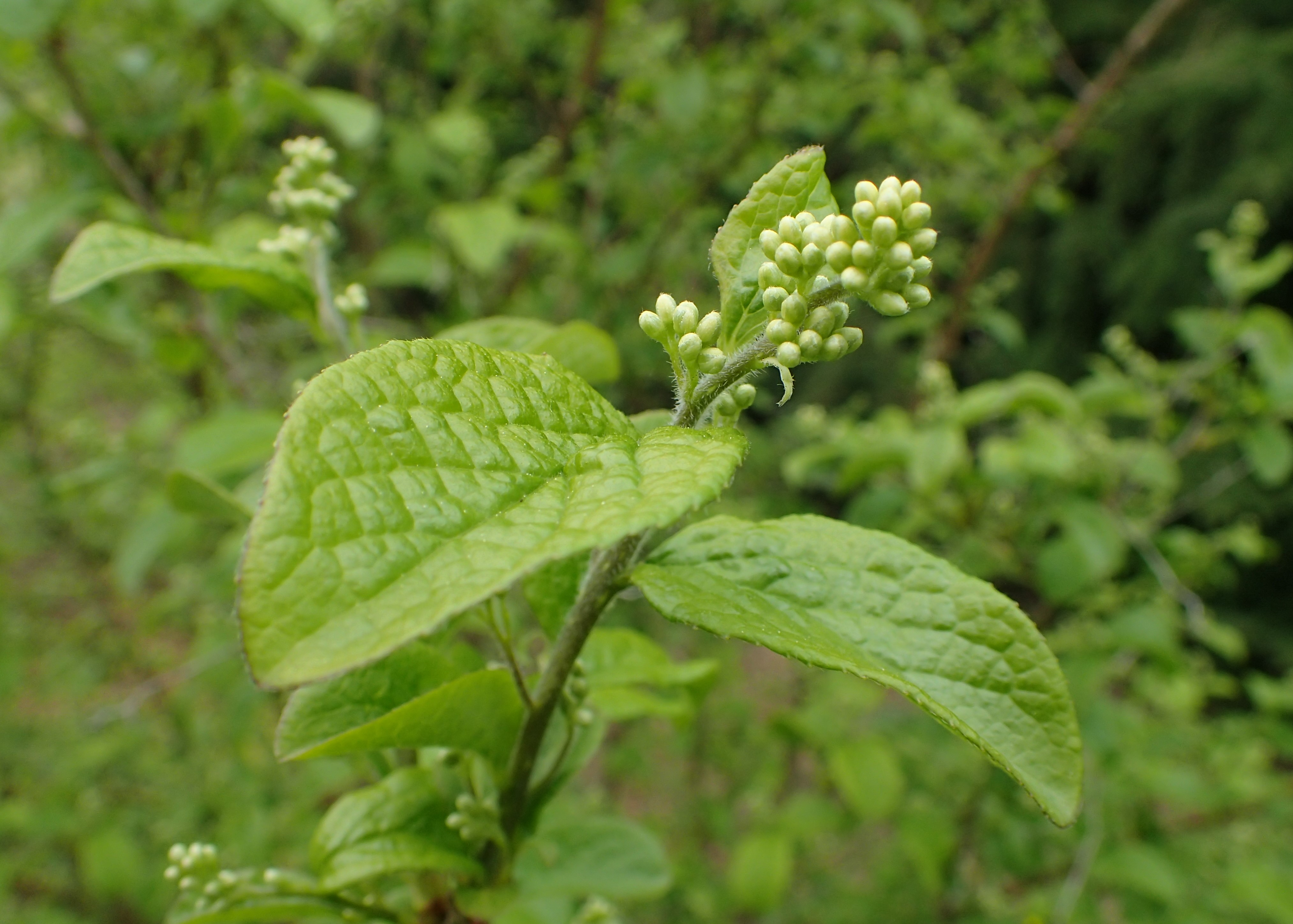 Symplocos paniculata in arboretum in Glinna, NW Poland